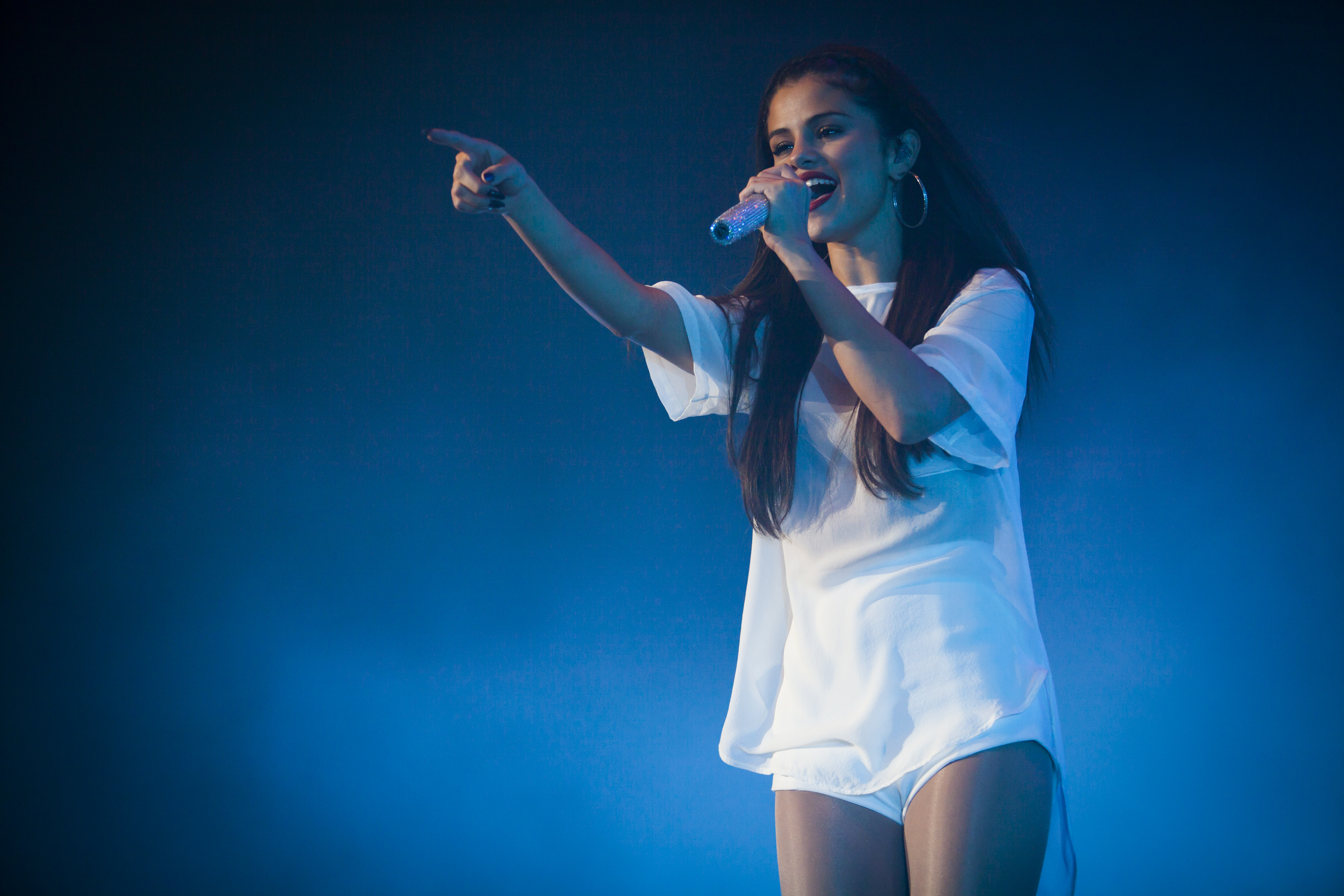 Selena Gomez during the Stars Dance Tour, Norway, september 2013.